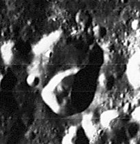 Brown is the roughly circular crater at center. The fresher oblong one that overlays it on the south, forming a double crater, is 22 km Brown E.